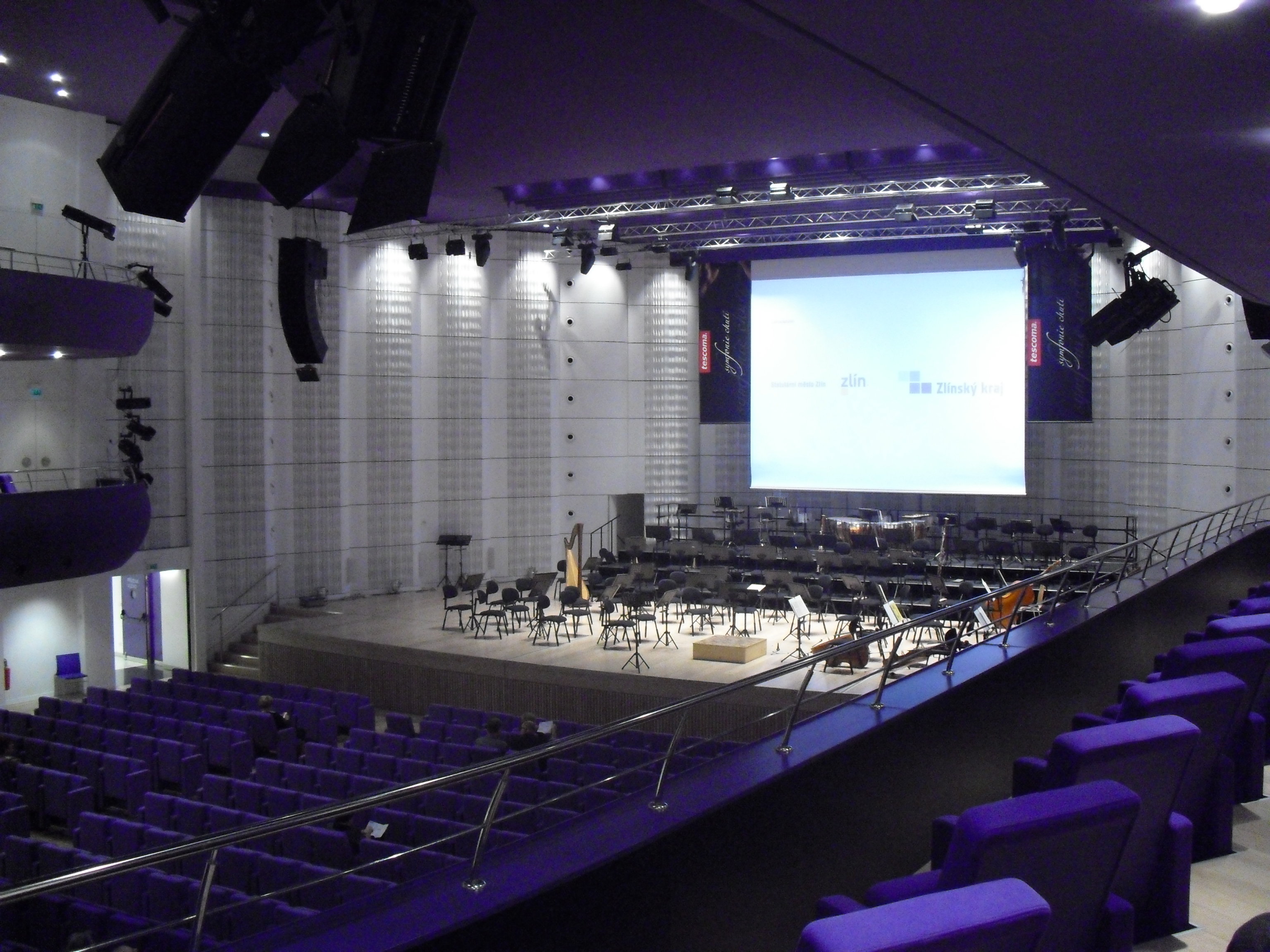 Zlín, Czech Republic. Congress Center.